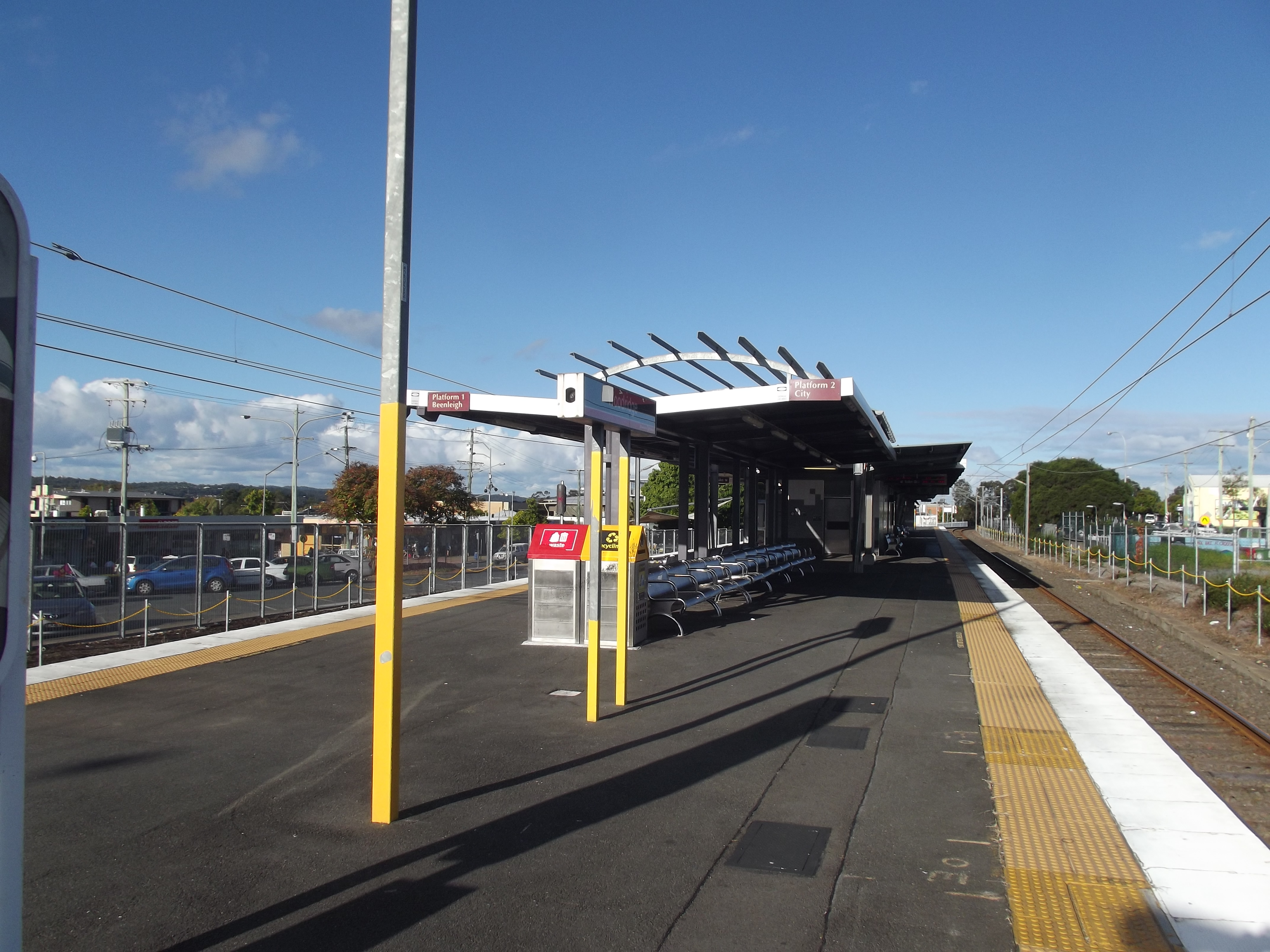 A photo of the Woodridge railway station, operated by TransLink, located in Logan City, Australia.